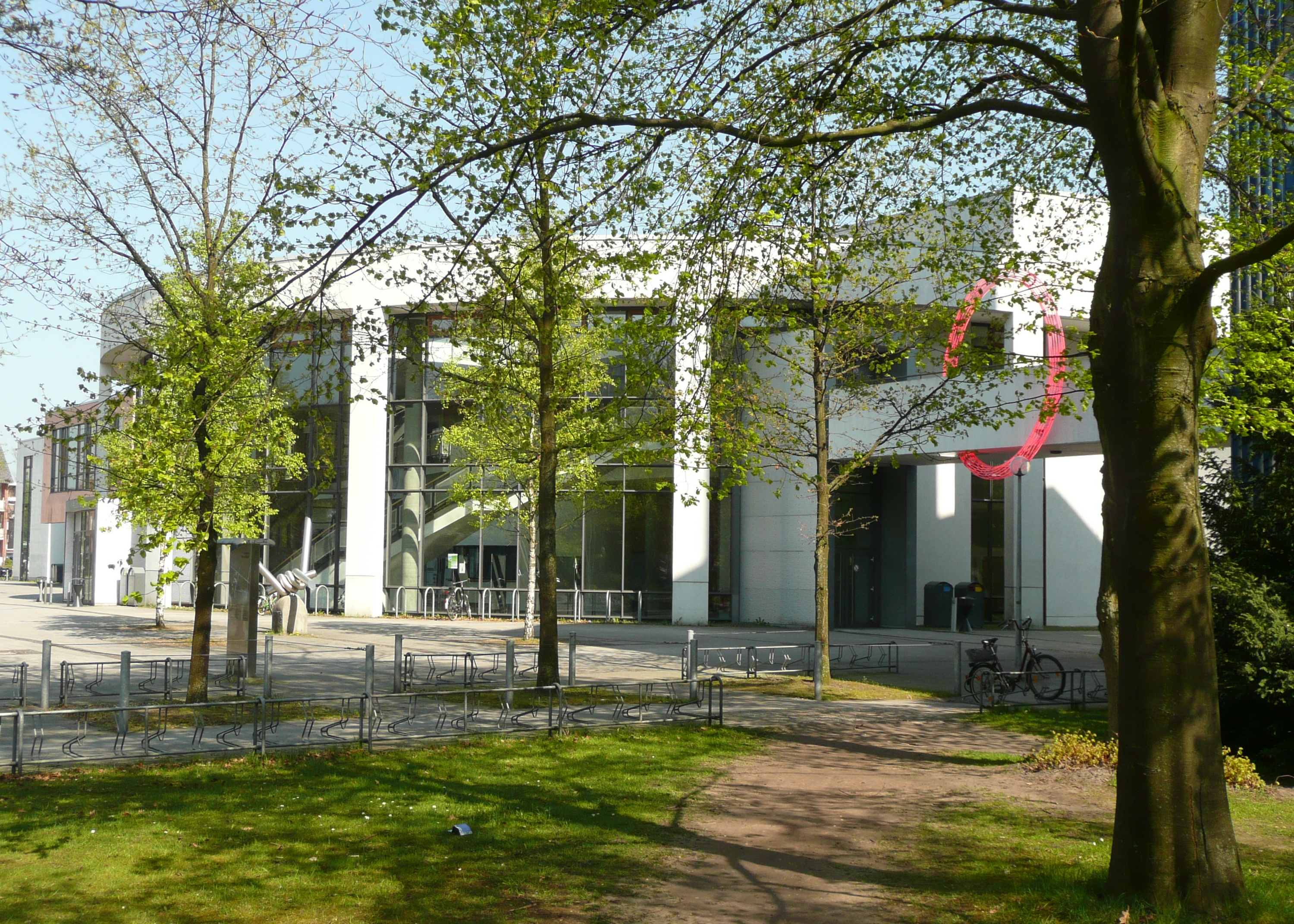 Lecture Hall of the University Oldenburg